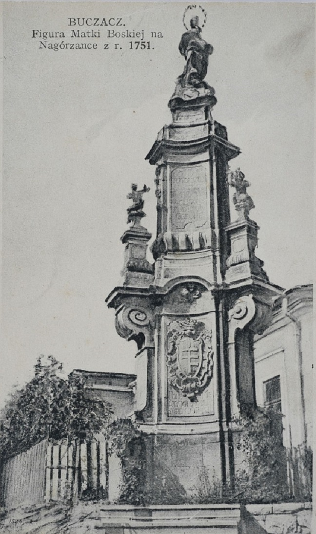 Buchach